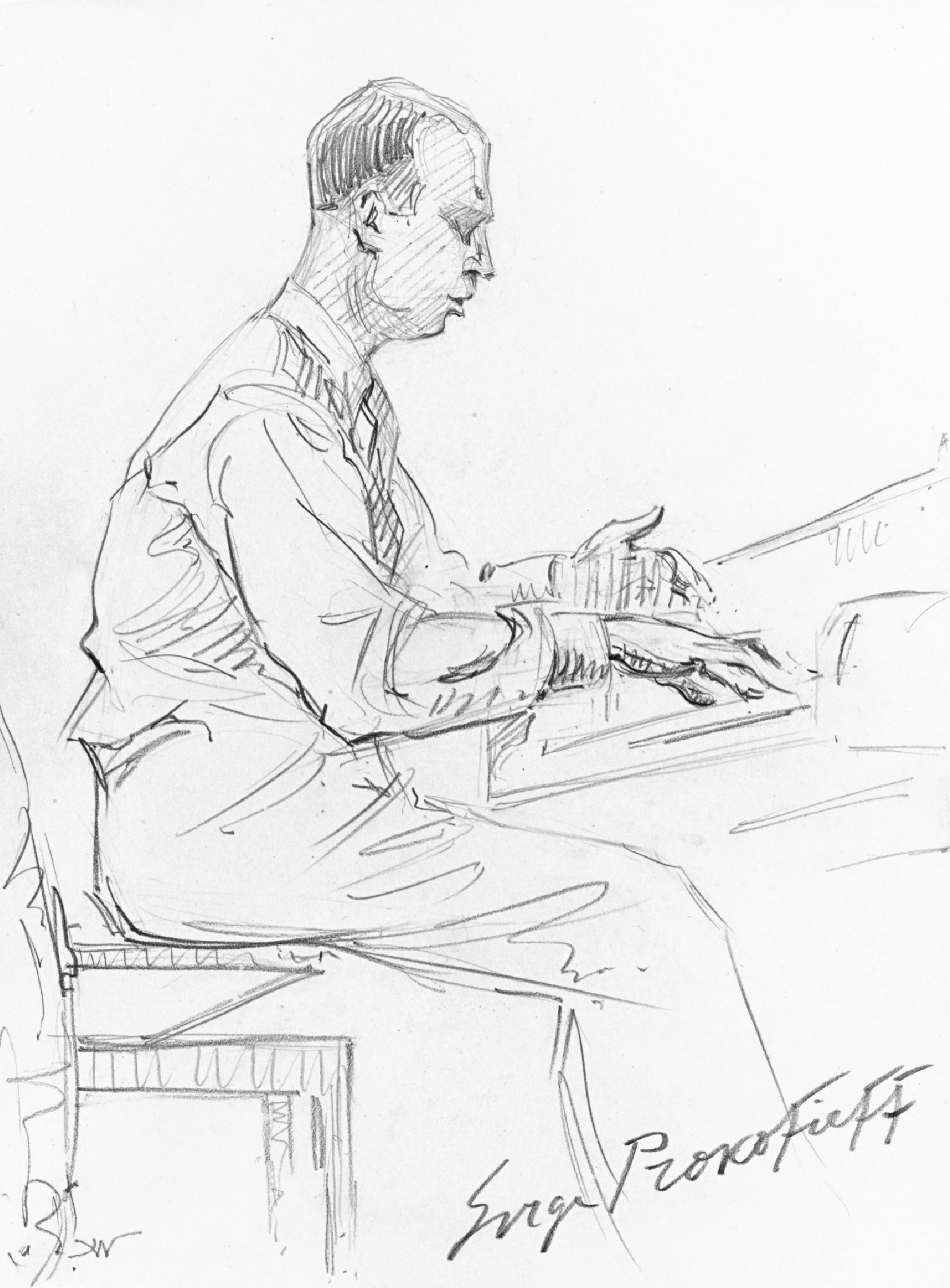 Sergei Prokofiev playing his 3d Piano Concerto with the Orchestre Symphonique de Brussel under Désiré Defauw pencil on paper 22.8 x 16.9 cm signed l.l.: HW signed by performer l.r.: Serge Prokofieff February 1936 Palais de Beaux-Arts, Brussel